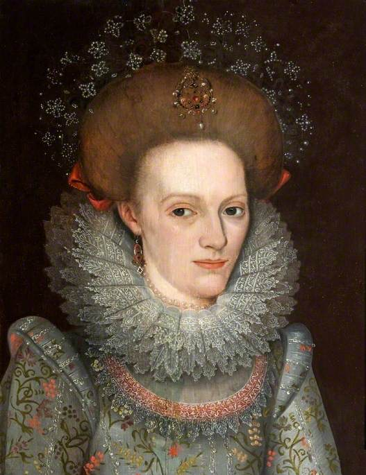 A circa 1630 58 x 45 cm oil-on-panel portrait painting of Anne Leighton by Gilbert Jackson held at Lydiard House